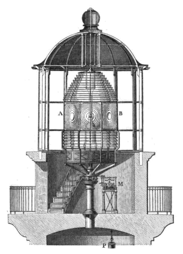 Cutaway drawing of a lighthouse lantern room from mid 1800s showing the Fresnel lens. Source says this was a lens of the 'largest size', made by M. Souter and exhibited at the Paris Universal Exposition in 1855. The cylindrical lens with 8 faces stood 10 feet high. A clockwork mechanism (M), driven by weight (P), slowly turns the entire lamp-lens assembly (A,B) on six rollers. This system, invented by Augustin-Jean Fresnel, scans the 8 beams from the lens around the whole horizon. The resulting regularly flashing light seen by mariners served to distinguish the lighthouse from stars or shore lights. Alterations: removed caption.